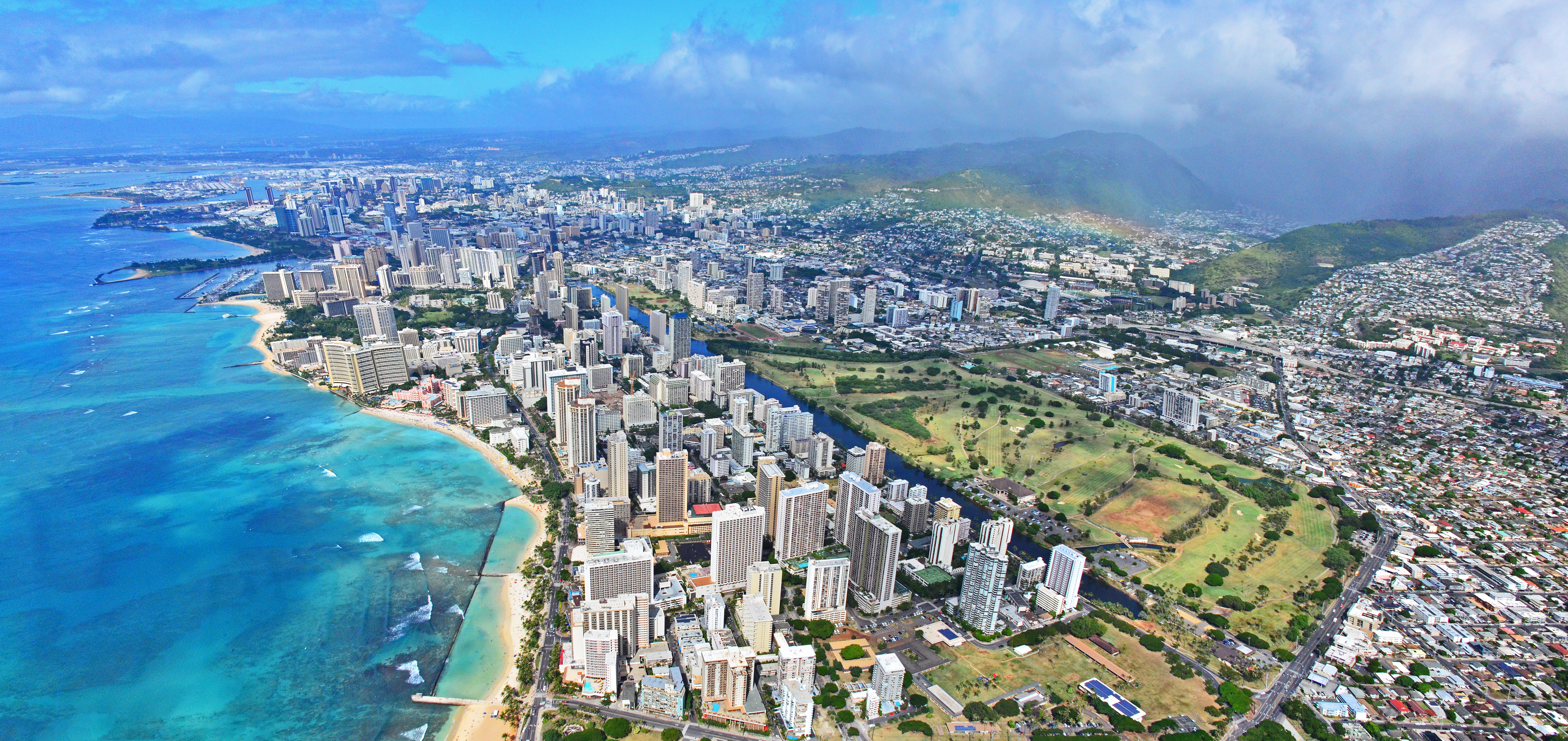 Waikiki and Honolulu from a doors off ride with Genesis Aviation Helicopter Tours.